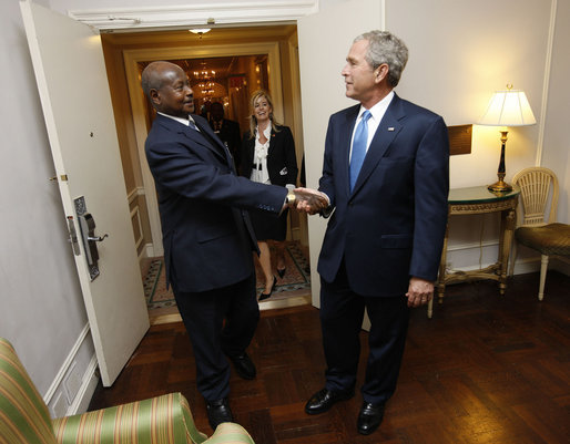 President George W. Bush greets Uganda's President Yoweri Museveni Tuesday, Sept. 23, 2008, at The Waldorf-Astoria Hotel in New York. President Bush thanked his counterpart for implementing the Malaria Initiative and said, "There's been over 200,000 bed nets distributed in your country, Mr. President, and that's because of the leadership of you and the organization of your government."